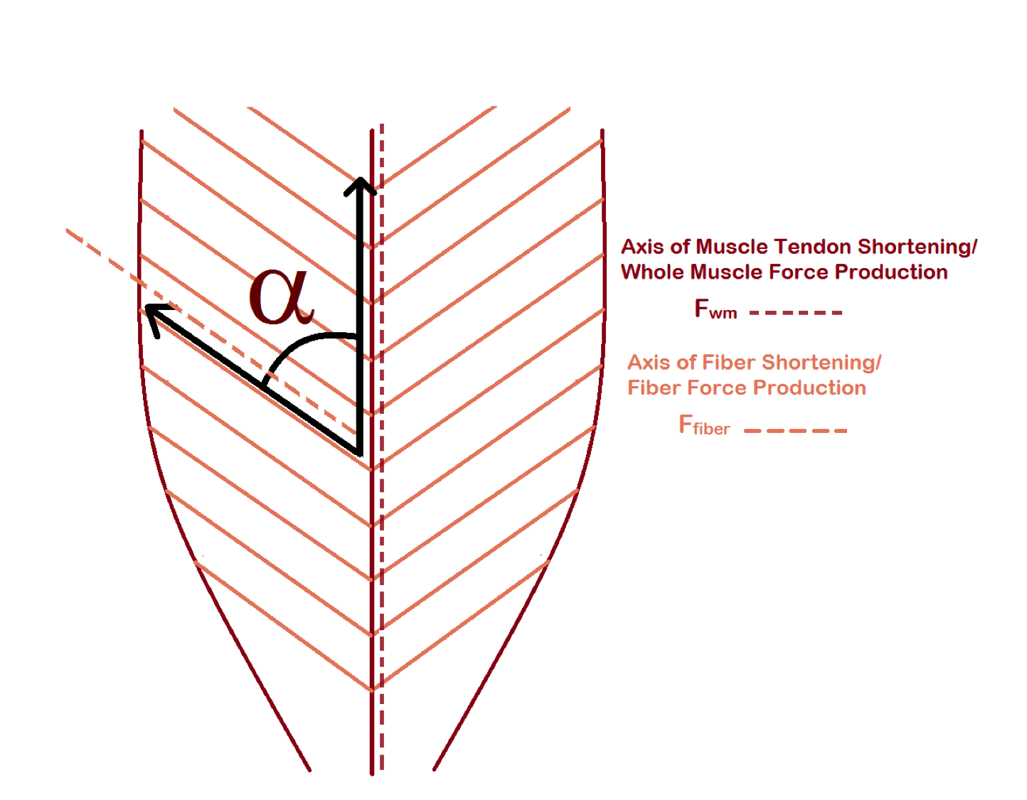 This diagram shows the pennation angle of the individual muscle fibers relative to the force generating axis of the entire muscle.